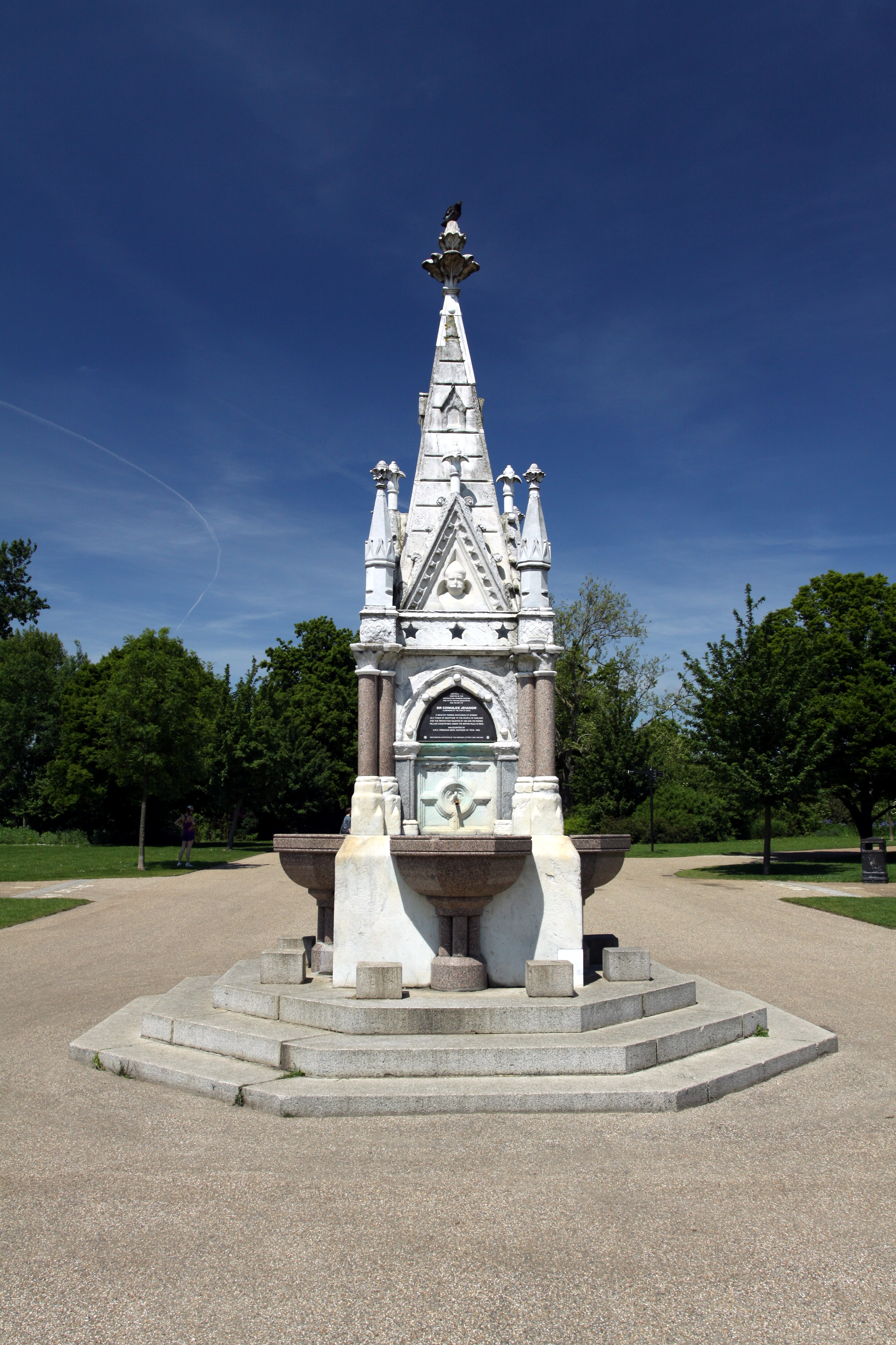 Fountain of Cowasji Jehangir Readymoney in the Regent's Park, London, England, Great Britain The making of this file was supported by Wikimedia UK. Cymraeg | English | +/− - OpenStreetMap (Info)